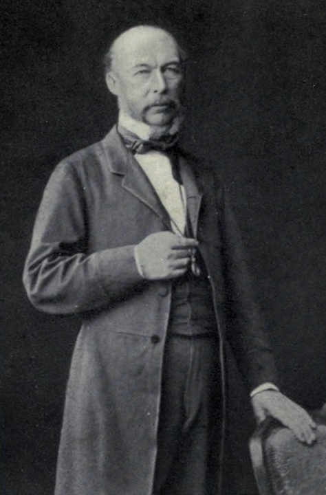 James Ferguson (22 January 1808 – 9 January 1886)